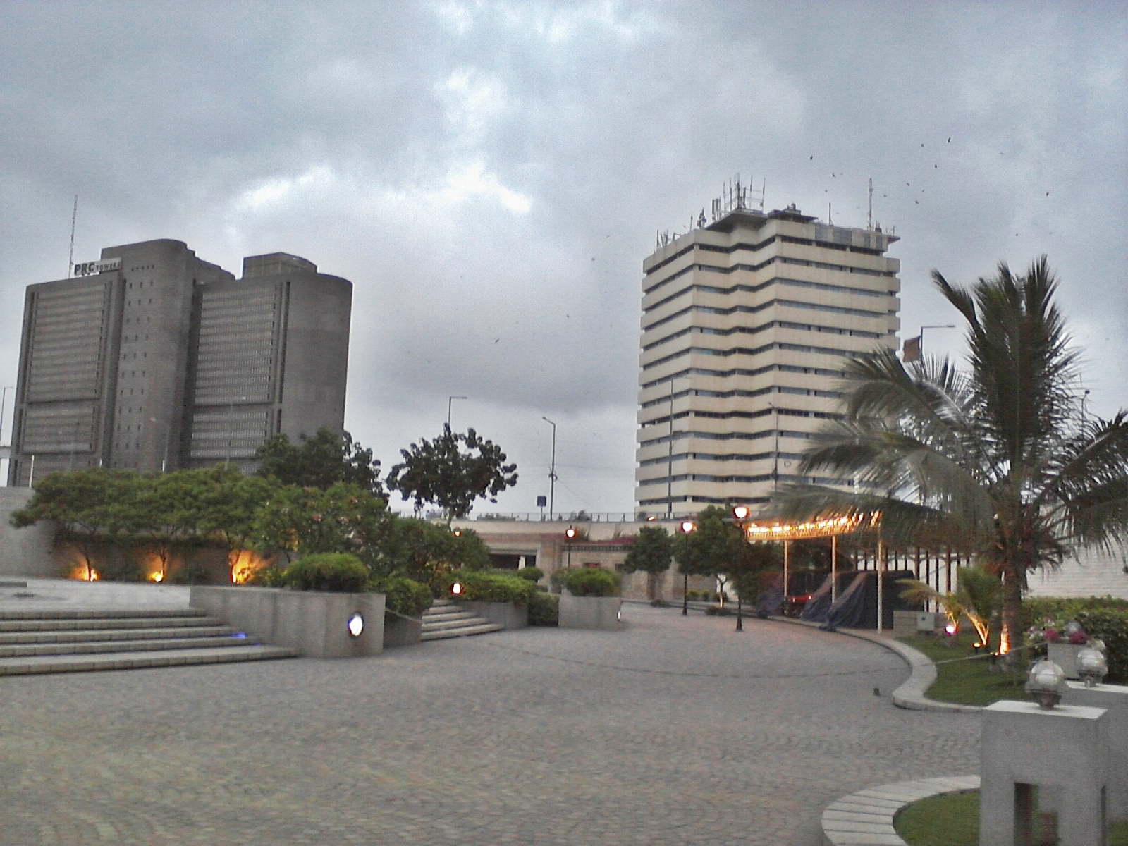 PRC Towers (left) and PNSC Building (right) in Karachi, Pakistan.